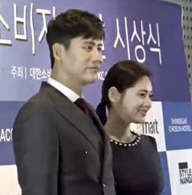 Choo Ja-hyun and her husband Xiaoguang.